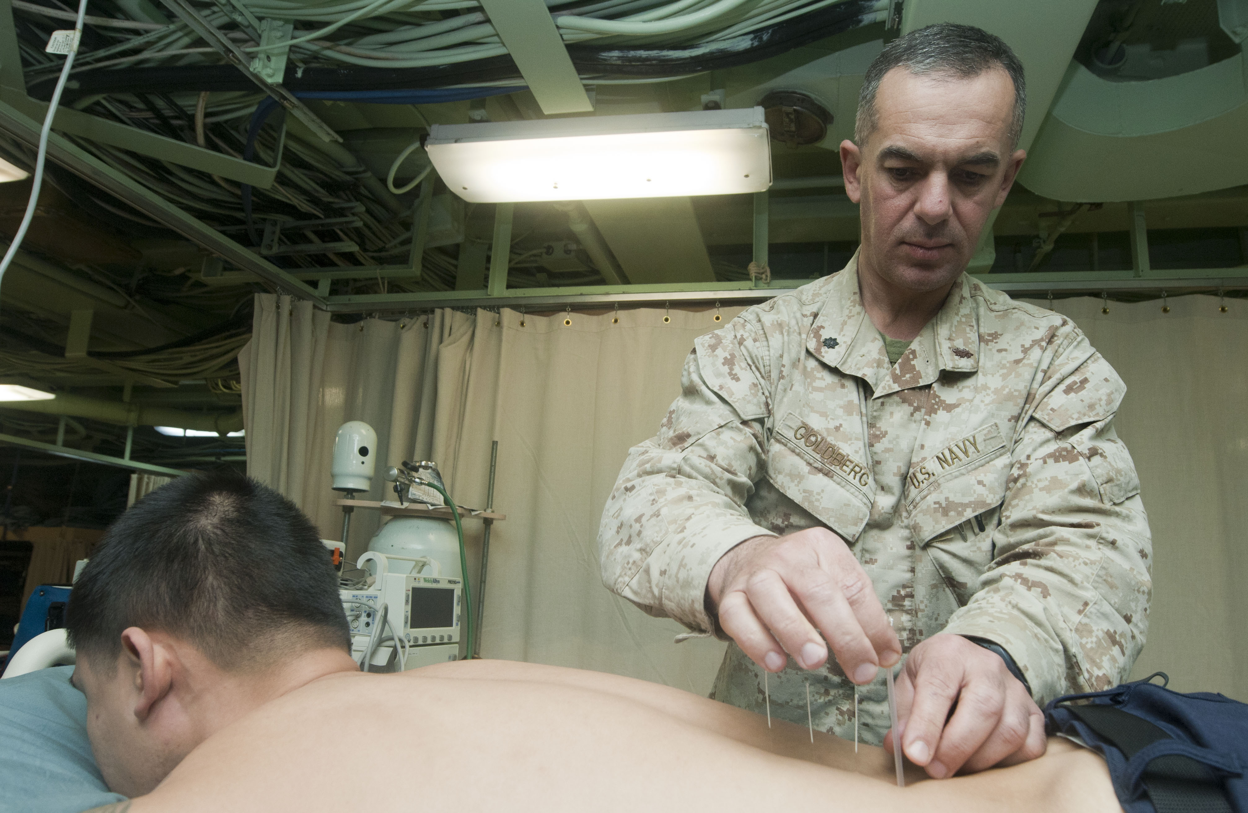 ARABIAN GULF (Feb. 16, 2012) Cmdr. Yevsey Goldberg conducts an acupuncture procedure on a patient aboard the amphibious transport dock ship USS New Orleans (LPD 18). New Orleans and embarked Marines assigned to the 11th Marine Expeditionary Unit are deployed as part of the Makin Island Amphibious Ready Group, supporting maritime security operations and theater security cooperation efforts in the U.S. 5th Fleet area of responsibility. (U.S. Navy photo by Mass Communication Specialist 2nd Class Dominique Pineiro/Released) 120216-N-PB383-282 Join the conversation